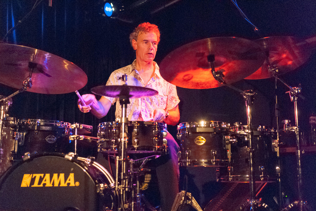 Bill Bruford at SJU Utrecht 2008 Photo: Steven Rieder